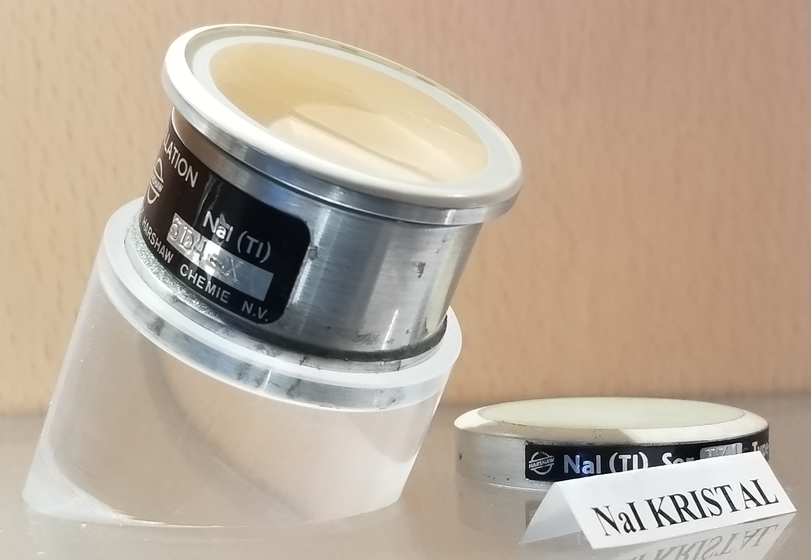 Sodium iodide (NaI) crystals